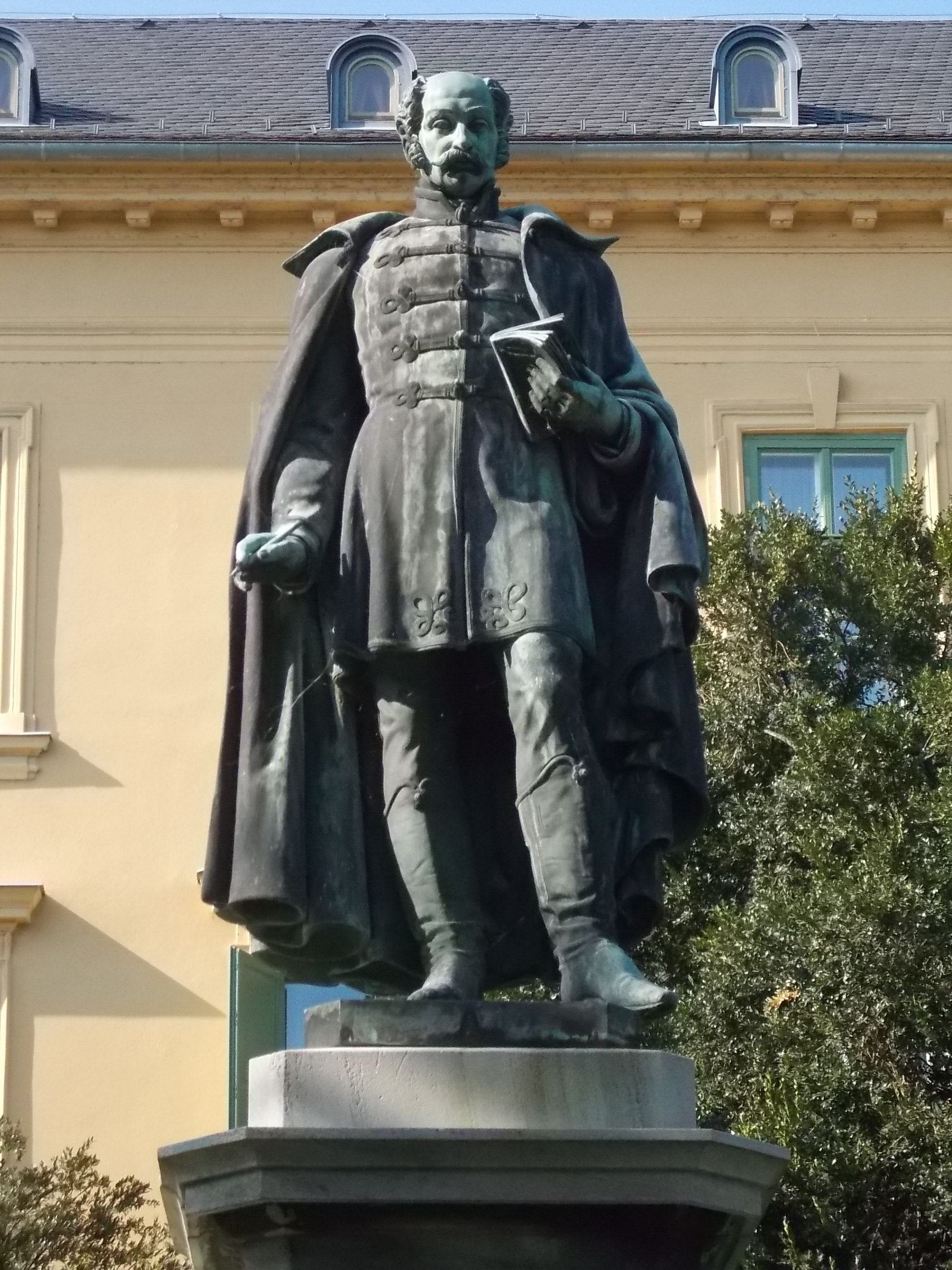 Statue of Sándor Kisfaludy by Miklós Vay, in 1876. Bronze statue on white marble pedestal.- Kisfaludy street, Balatonfüred, Veszprém County, Hungary